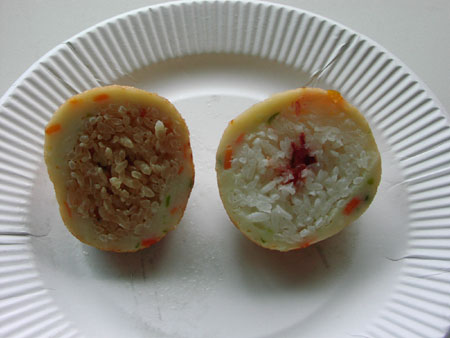 Itoman Bakudan-Onigiri